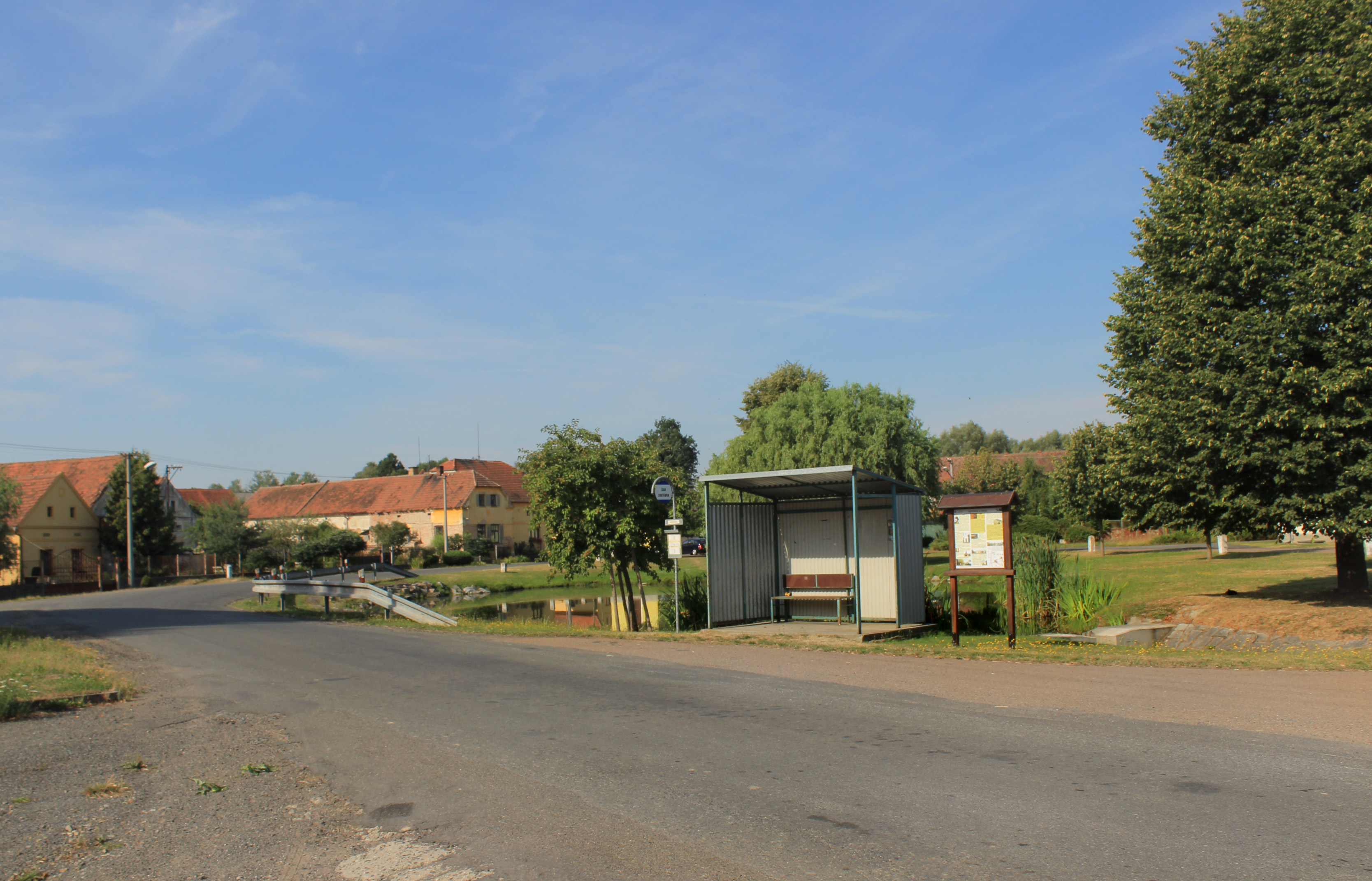 Bus stop in Kotovice, Czech Republic.